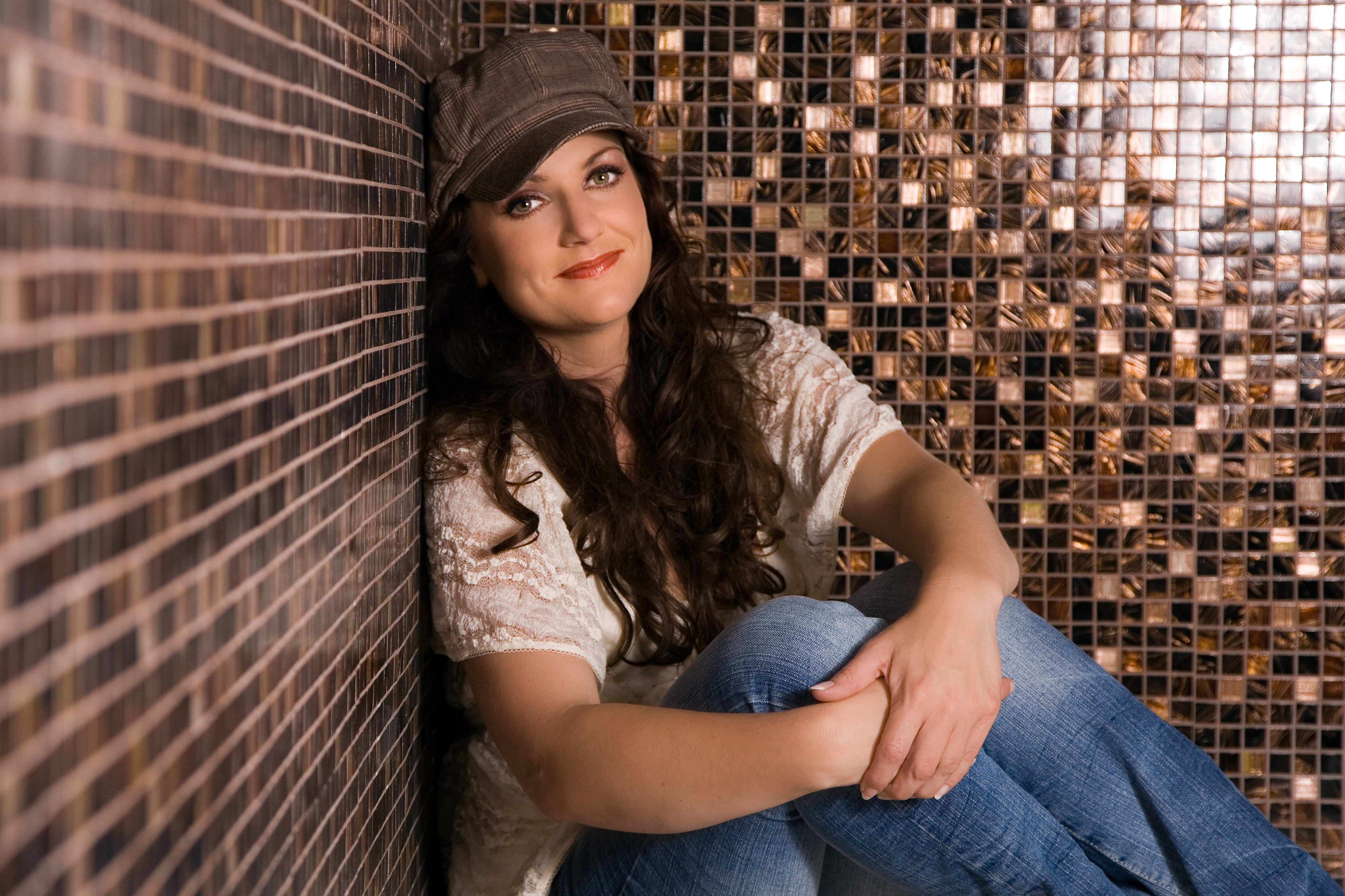 Singer / Vocal artist Lana Wolf